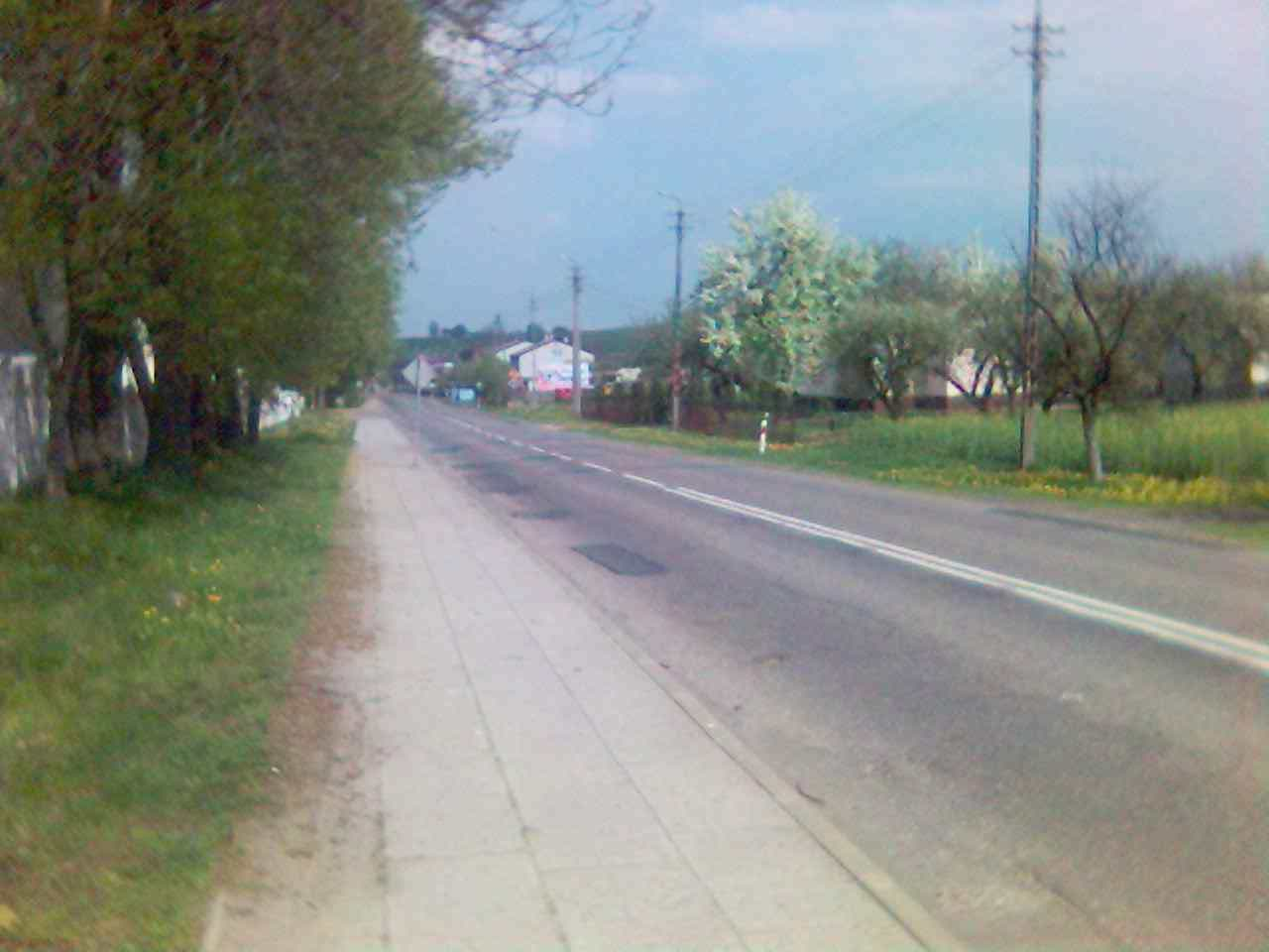 A road in Zakrzew, Gmina Kodrąb, Radomsko County, Łódź Voivodeship, Poland.